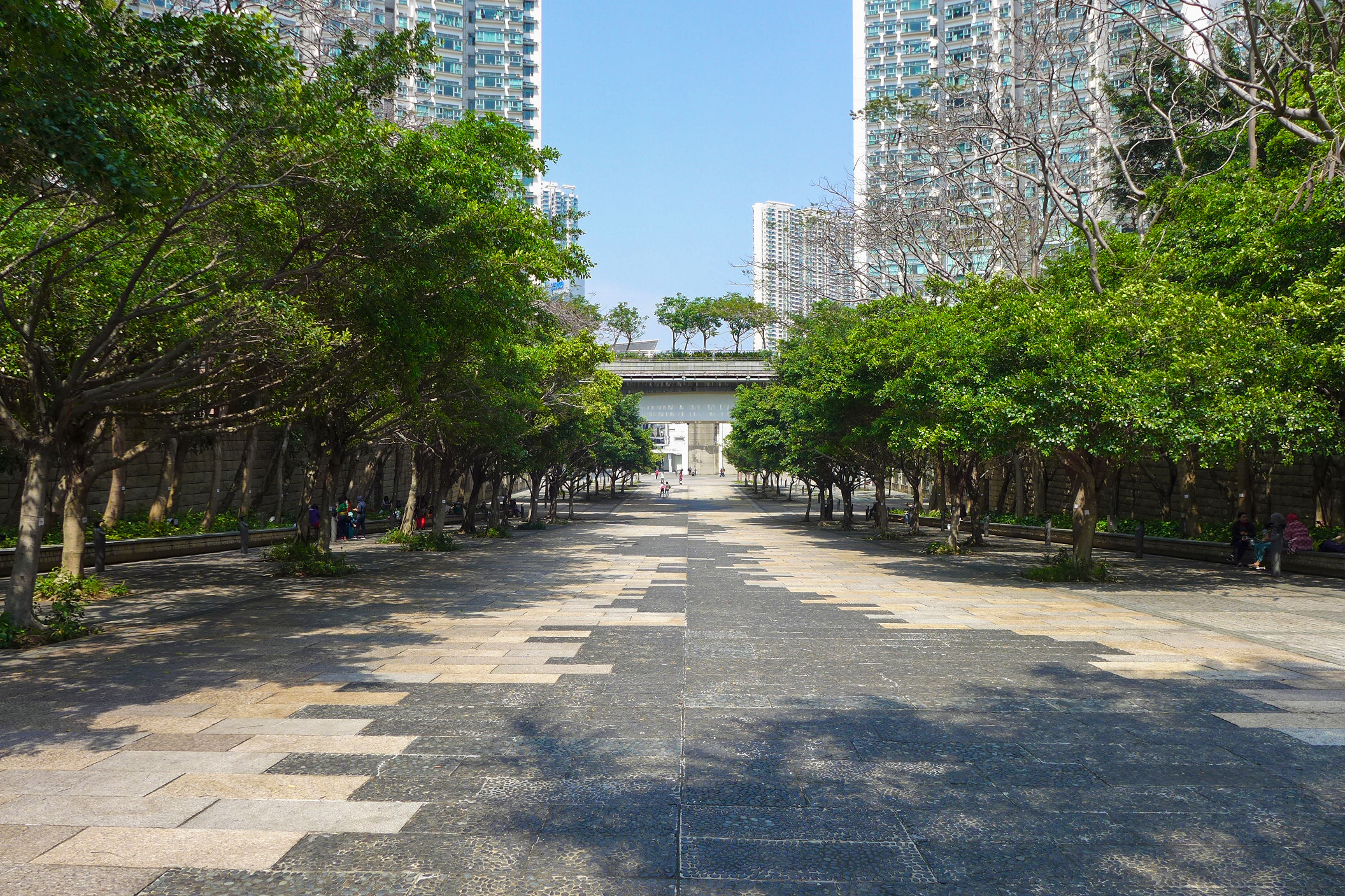 Tung Chung Crescent open space